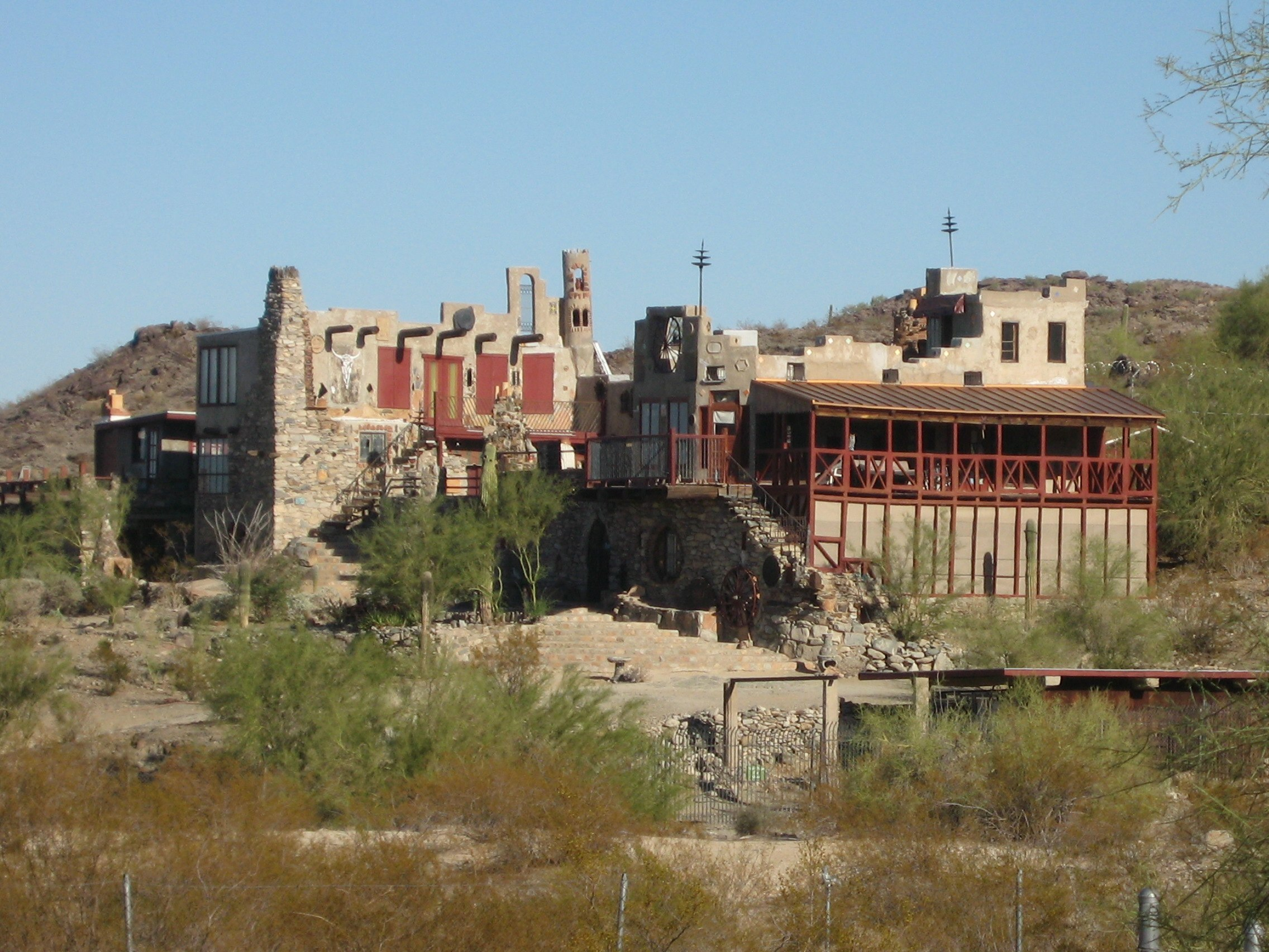 castillo misterio EE.UU.